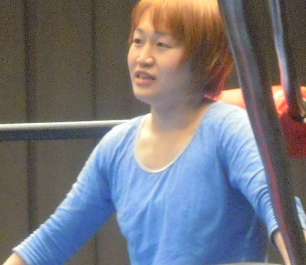 Japanese professional wrestler,Momoe Nakanishi. Mar 21 2011 Ice Ribbon Korakuen Hall.